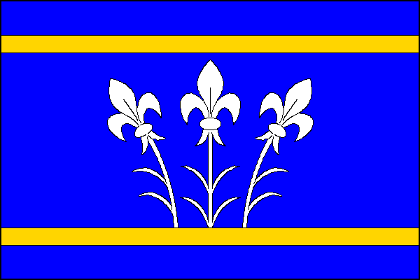 Municipal flag of Slup village, Znojmo District, Czech Republic.